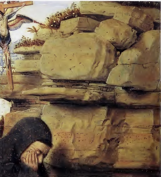 Detail, Saint Francis of Assisi Receiving the Stigmata, Philadelphia Museum of Art